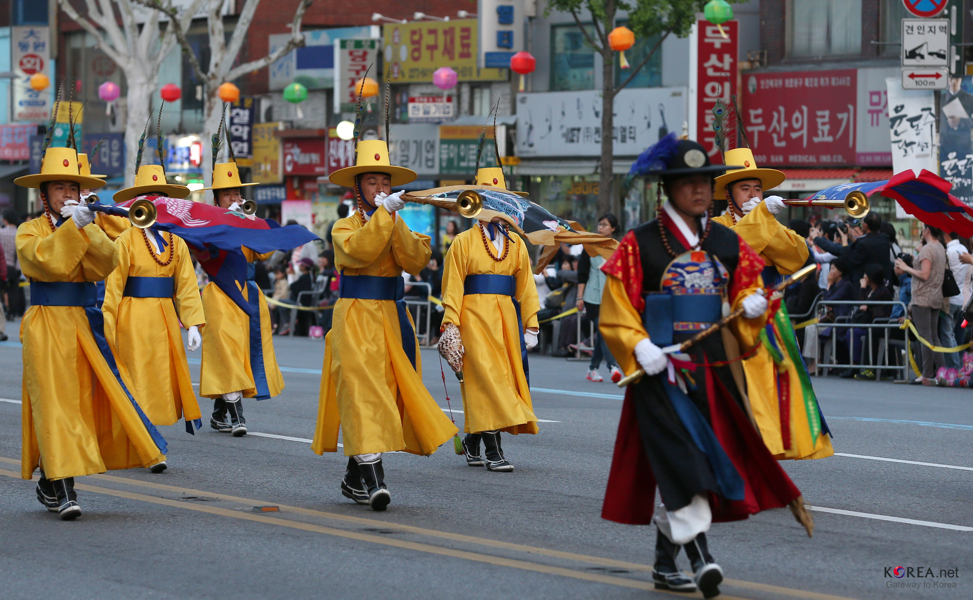 Yeon Deung Hoe (Lotus Lantern Festival) Jongno-gu, Seoul 2013.05.11. -Related Article- "Lotus lanterns light up Seoul night" Ministry of Culture, Sports and Tourism Korean Culture and Information Service Newsroom Jeon Han 연등회 불기2557년 부처님오신 날 맞이 연등회(중요무형문화제 제122호) 조계사 및 종로 일대 문화체육관광부 해외문화홍보원 코리아넷 전한